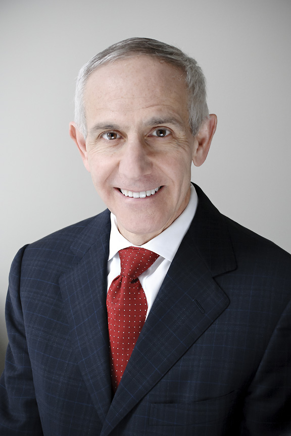 photo of Kenneth Ouriel